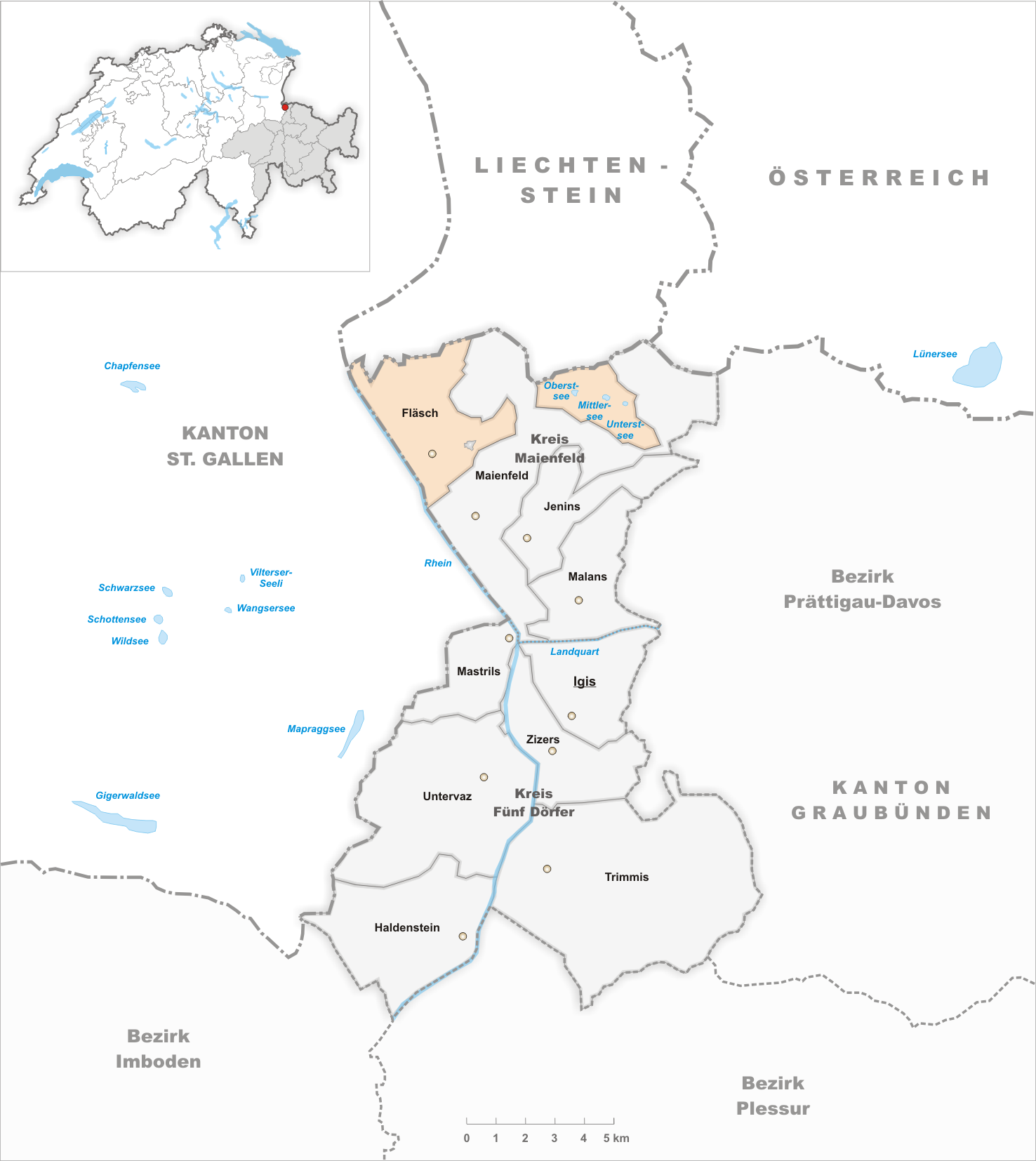 Municipality Fläsch